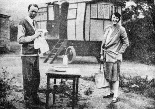 Sinclair Lewis and Dorothy Thompson during their honeymoon caravan trip in England, 1928